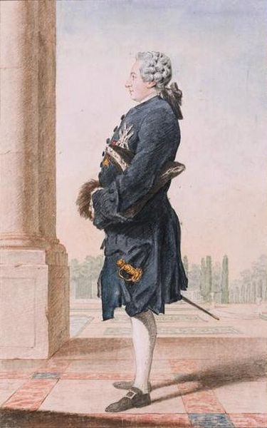 Louis, Dauphin of France (1729–1765), son of Louis XV and Marie Leszczyńska